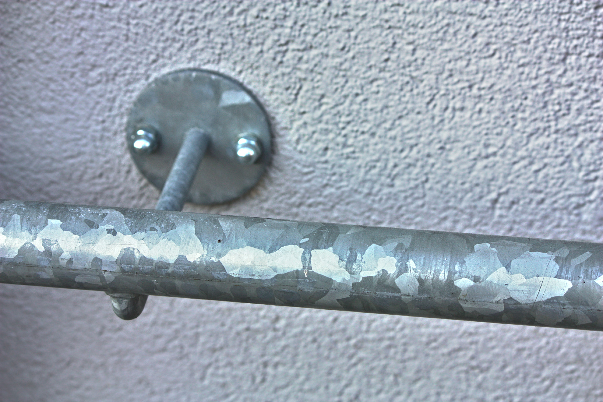 Hot-dip galvanizing on a steel handrail. Photo taken in Bischofswerda in Germany. The image is edited so the details of the metal surface can be seen.